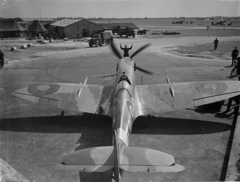 Royal Air Force- 2nd Tactical Air Force, 1943-1945. Supermarine Spitfire Mark IXB, MH809 'LO-P' of No. 602 Squadron RAF is guided out from its dispersal at Ford, Sussex, for a fighter sweep over occupied Europe.